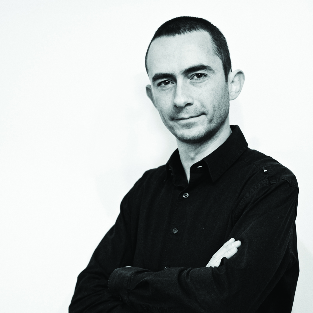 Bogdan Rusev is Bulgarian writer and journalist. The image is created on the occasion of the last book of the author.